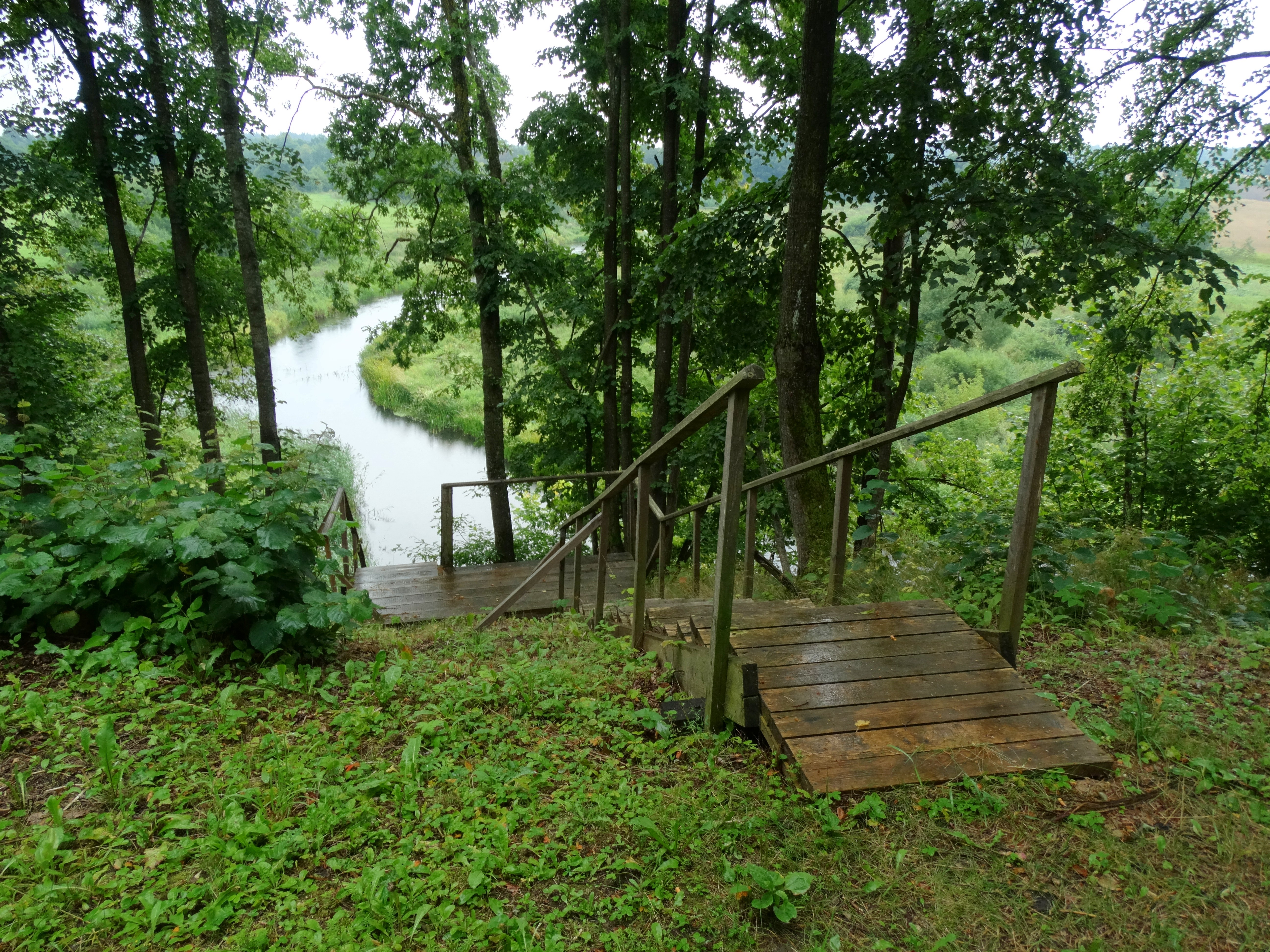 Purviai outcrop, Akmenė district, Lithuania